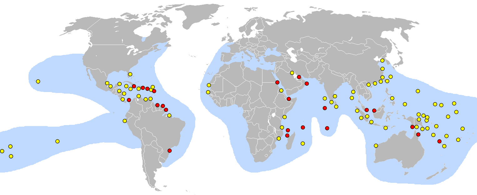 Nesting location of Hawksbill sea Turtle : red dot = major nesting locations, yellow dot=minor nesting locations